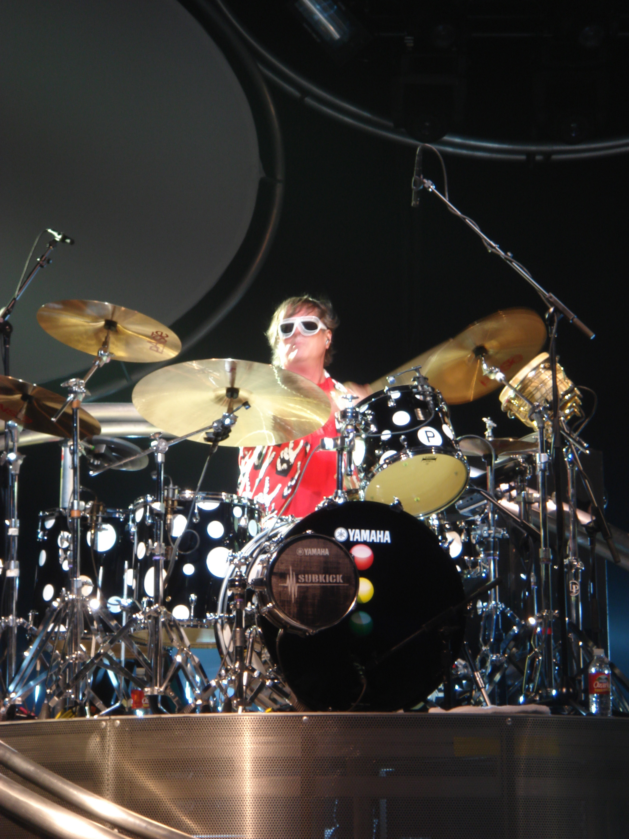 Prairie Prince performs with The New Cars at the Nokia Theater in Dallas on May 14, 2006.